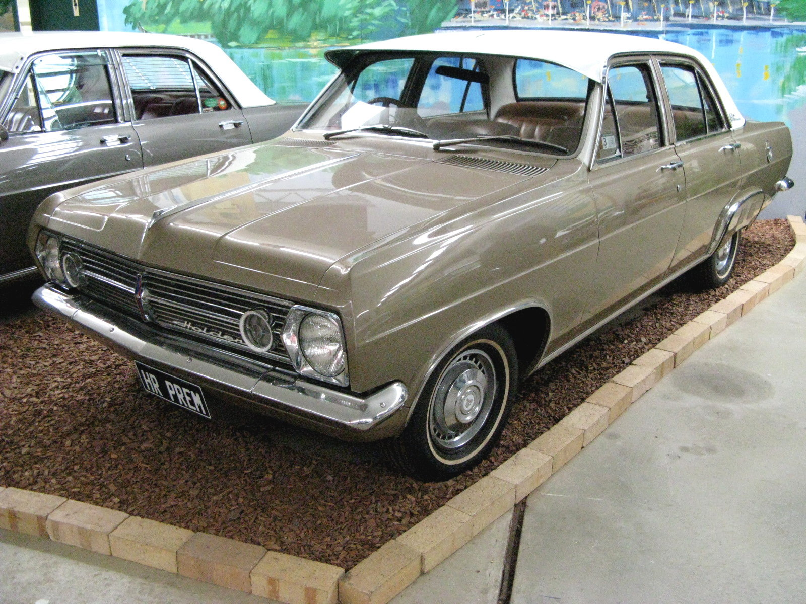 1966 Holden HR Premier 186